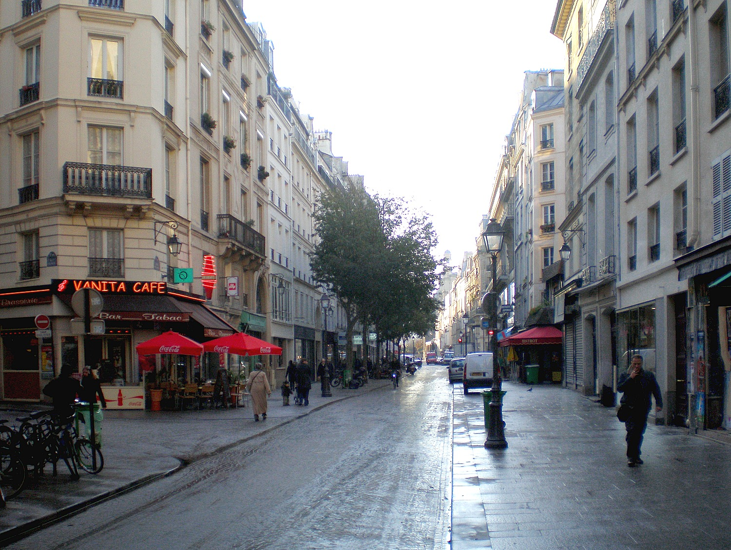 Rue Montmartre - Paris